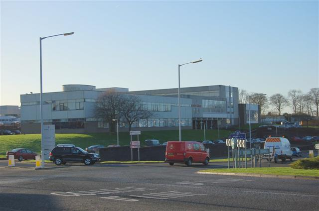 Lauder College Know locally as Lauder Tech this college moved to this location at Halbeath in 1970 from an older building in Dunfermline.